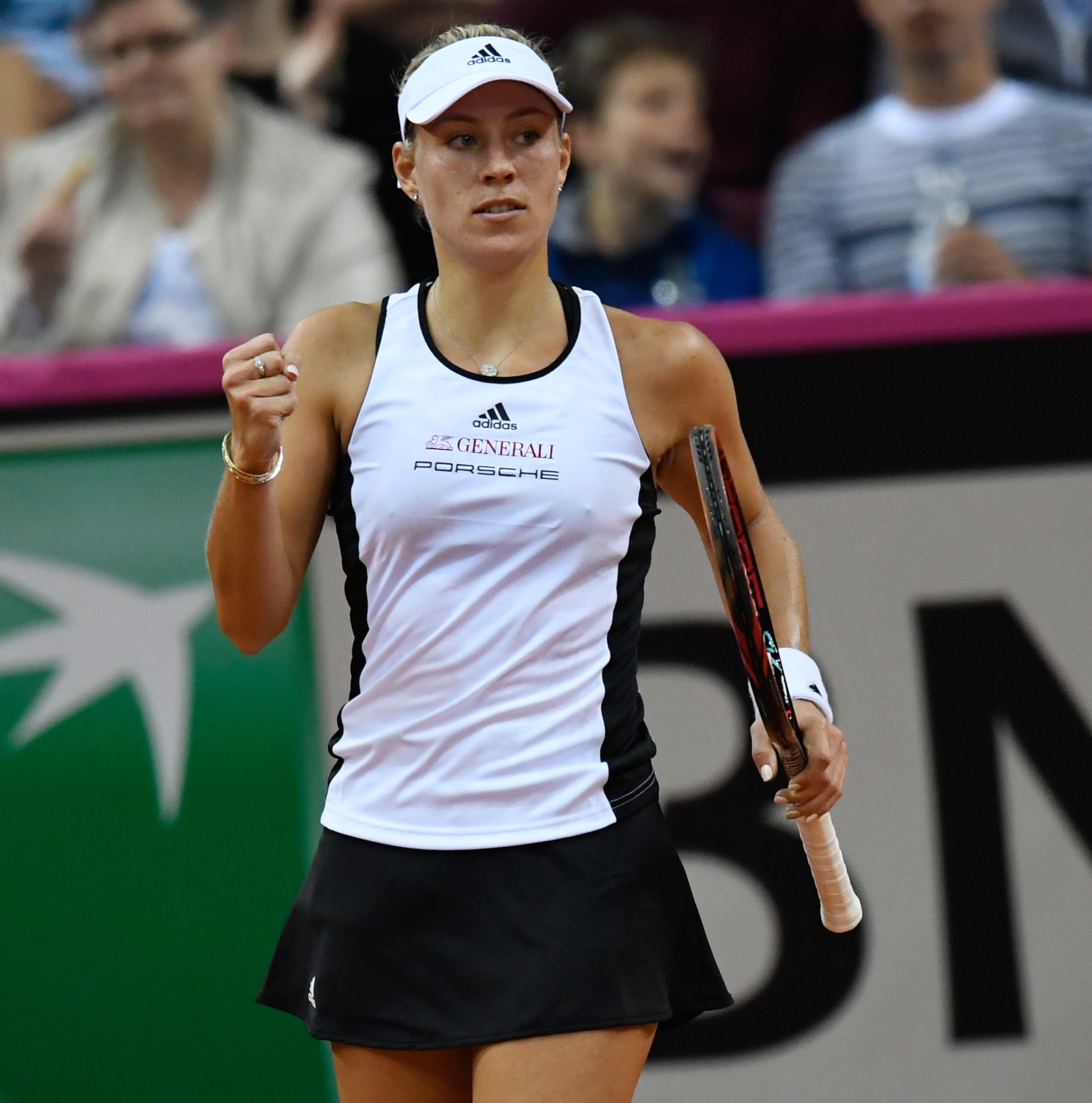 Angelique Kerber at the Fed Cup World Group Play-offs 2017 against Ukraine